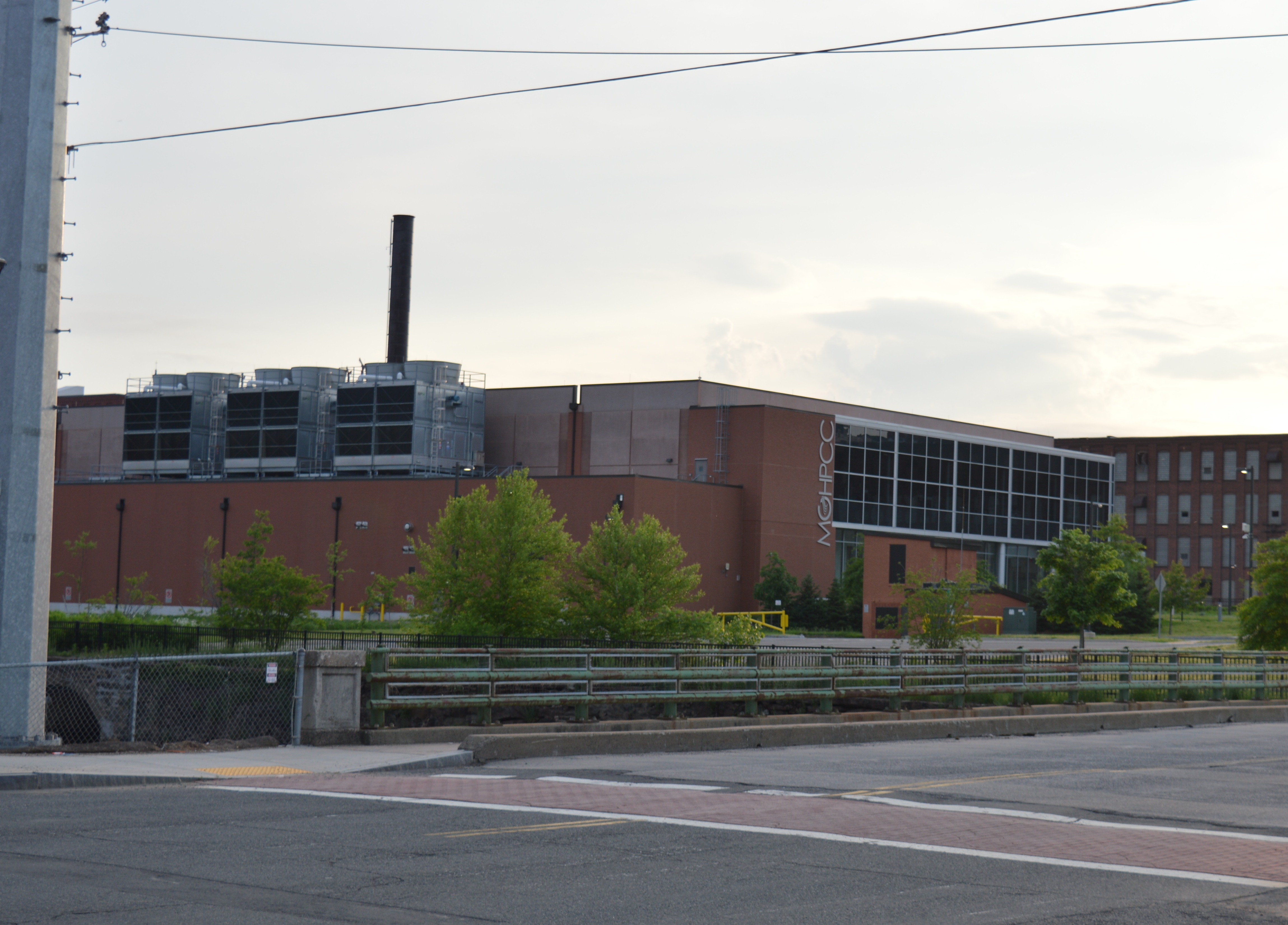 The Massachusetts Green High Performance Computing Center, the newest building completed in the Holyoke Canal System and a collaboration between several universities and corporate sponsors including the University of Massachusetts, MIT, Harvard, Boston University, and Northeastern, and Dell ENC as well as Cisco.